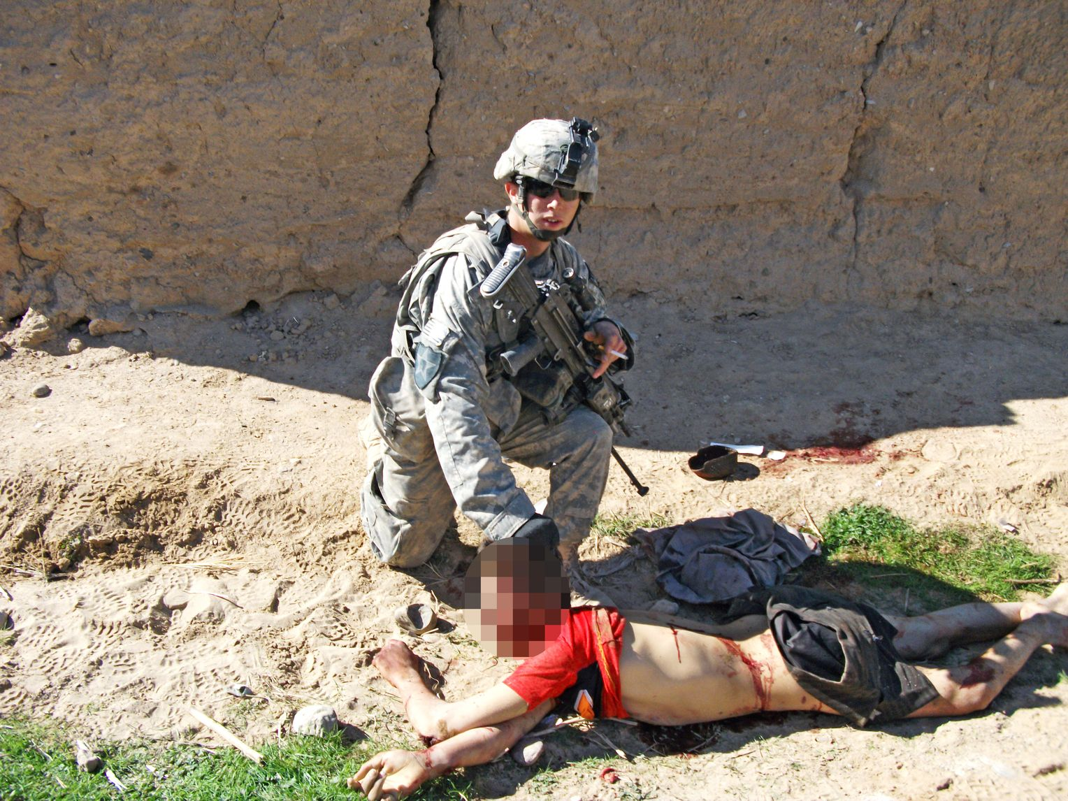 The photo shows the dead body of teenager Gul Muddin, son of an Afghan farmer in Kandahar Province. The boy was shot and killed on 15 January 2010 by a small group of corrupt U.S. army soldiers.[1] Pfc. Holmes of the FOB Ramrod kill team is holding the boy's head to the camera. The incident caused a global condemnation, and at least 4 members of the group were court-martialled and sentenced to various prison sentences.